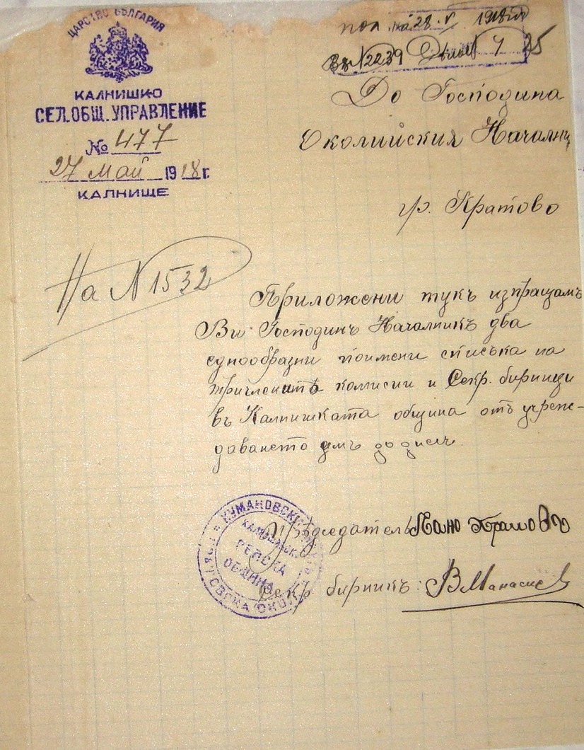 Document stamped by rural municipality of Kalnishte, May 27, 1918. This media file is produced by Wikipedian in Residence in Category:Wikipedian in Residence at DARM in 2016.